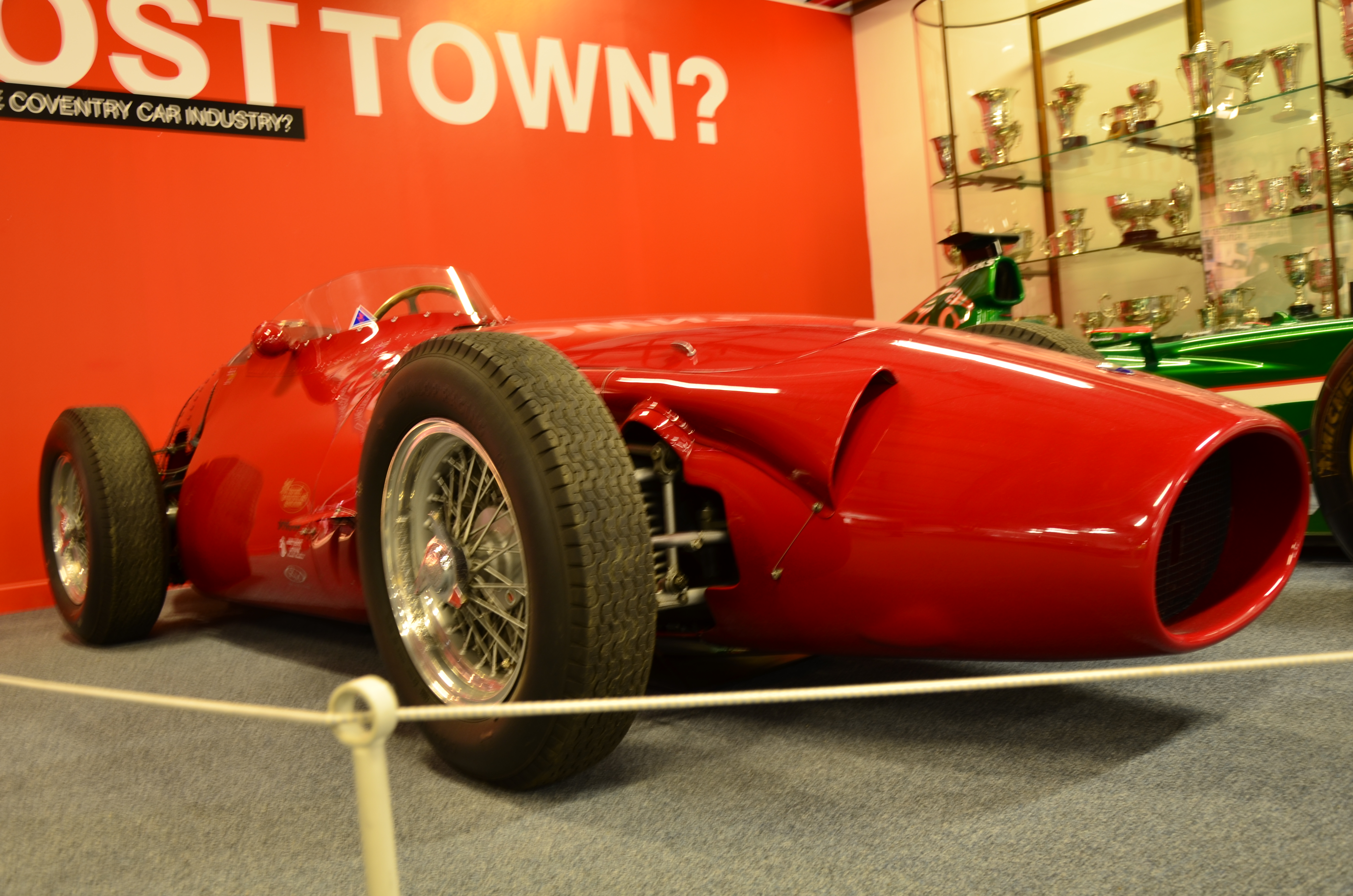 Front-right of the 1955 Maserati 250F F1 car